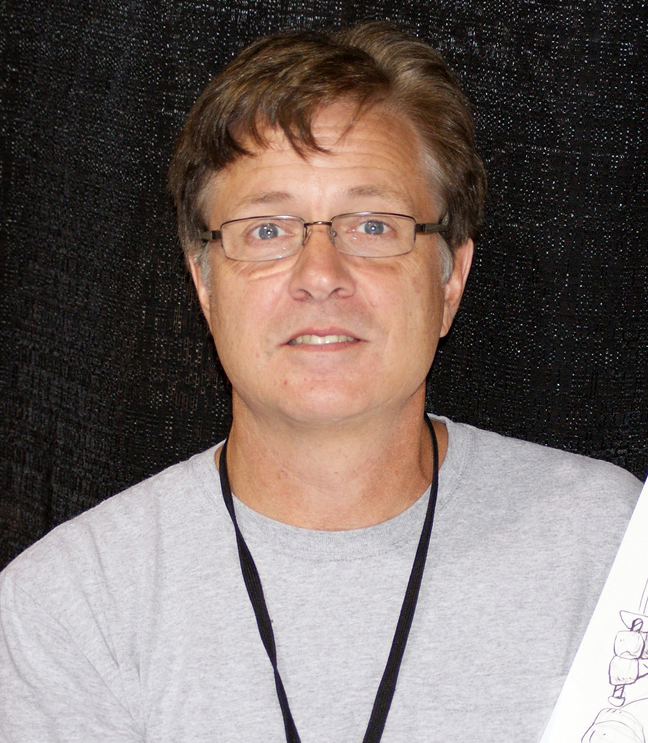 Bo Hampton attending the Calgary Comic & Entertainment Expo in BMO Centre, Calgary, Alberta, Canada.